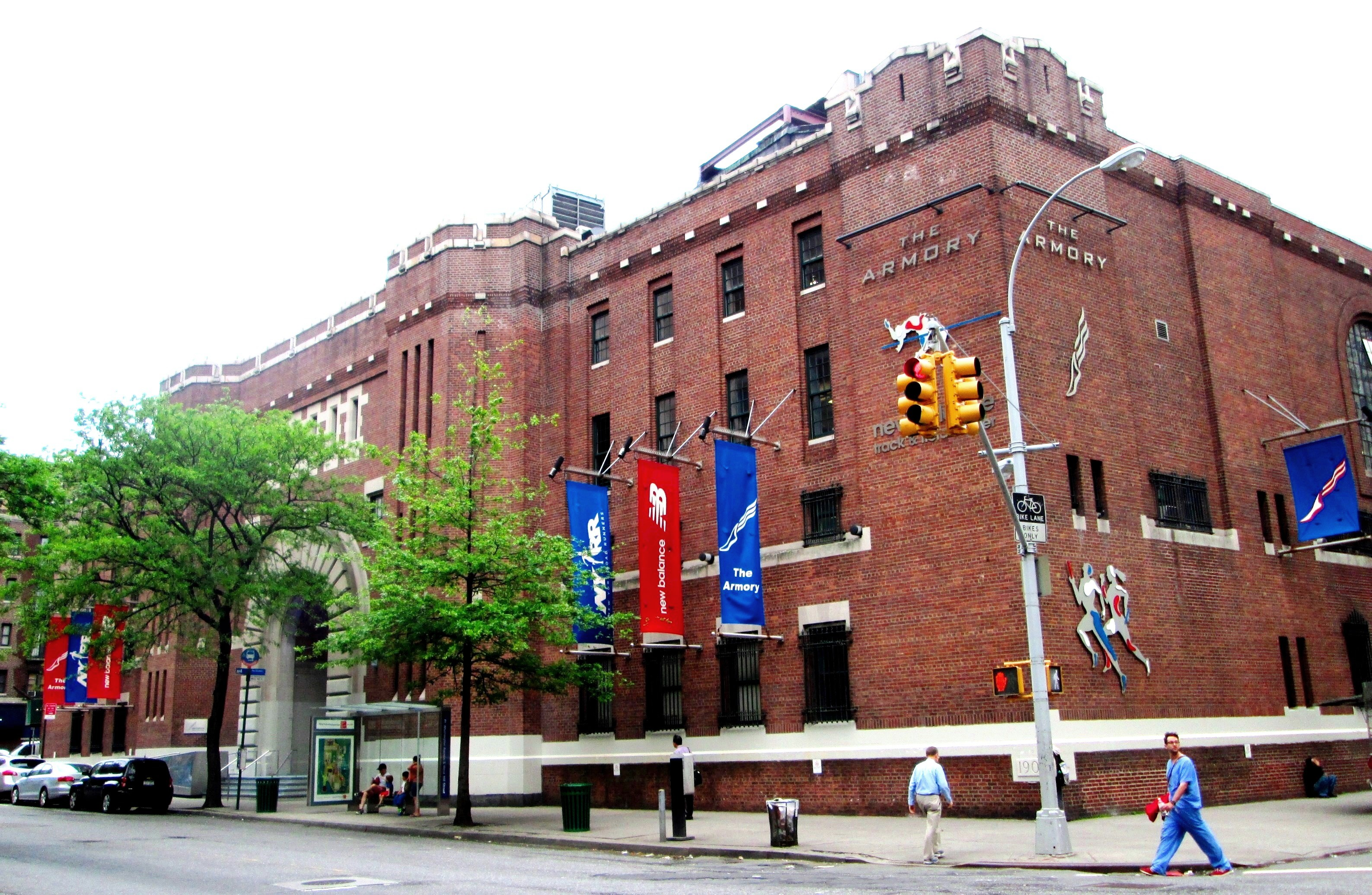 The Fort Washington Armory is located at 241 Fort Washington Avenue (Manhattan) between West 168th and 169th Streets in the Washington Heights neighborhood of Manhattan, New York City. It is a brick Classical Revival building with Romanesque Revival elements, such as the entrance archway, and is currently home to the National Track and Field Hall of Fame and other organizations including the Police Athletic League of New York City.